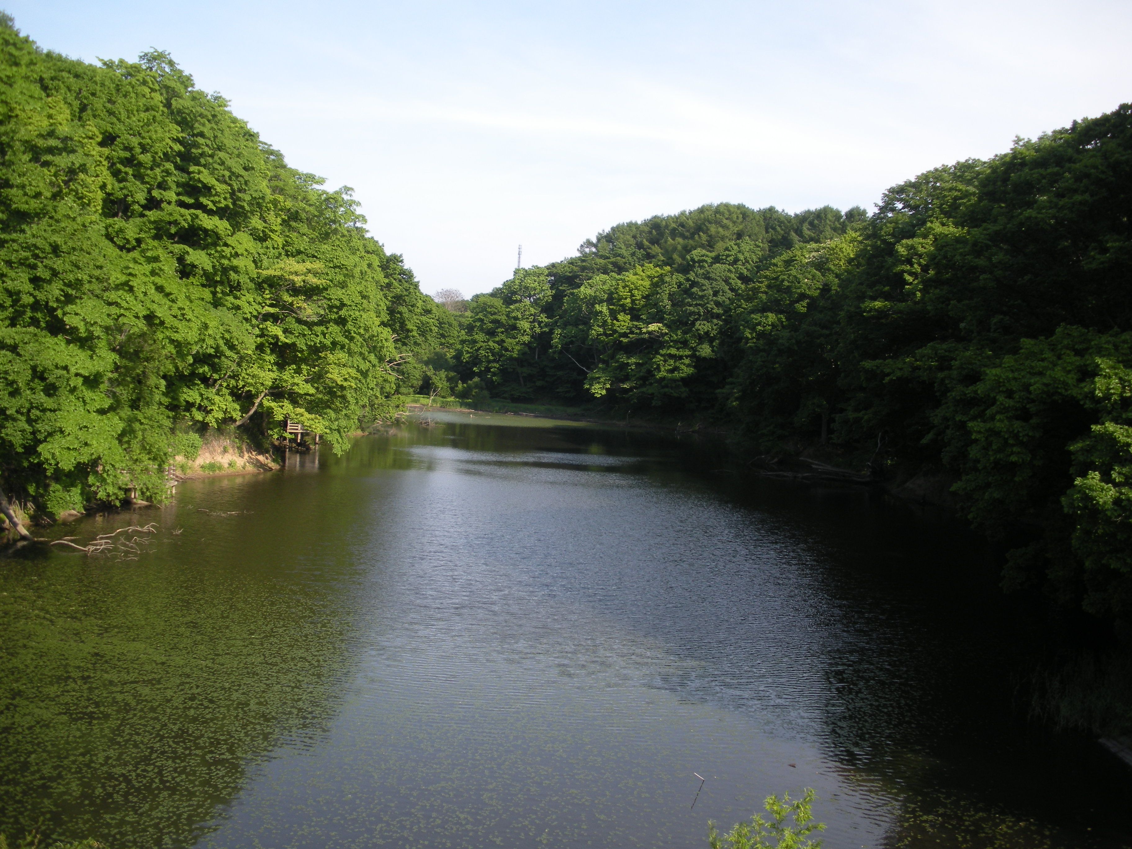 Park of Oasa Cyuos Lake